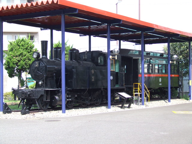 Locomotive -No.3- and Carriage -Series 20 No.24- ,Sagami Railway,Japan